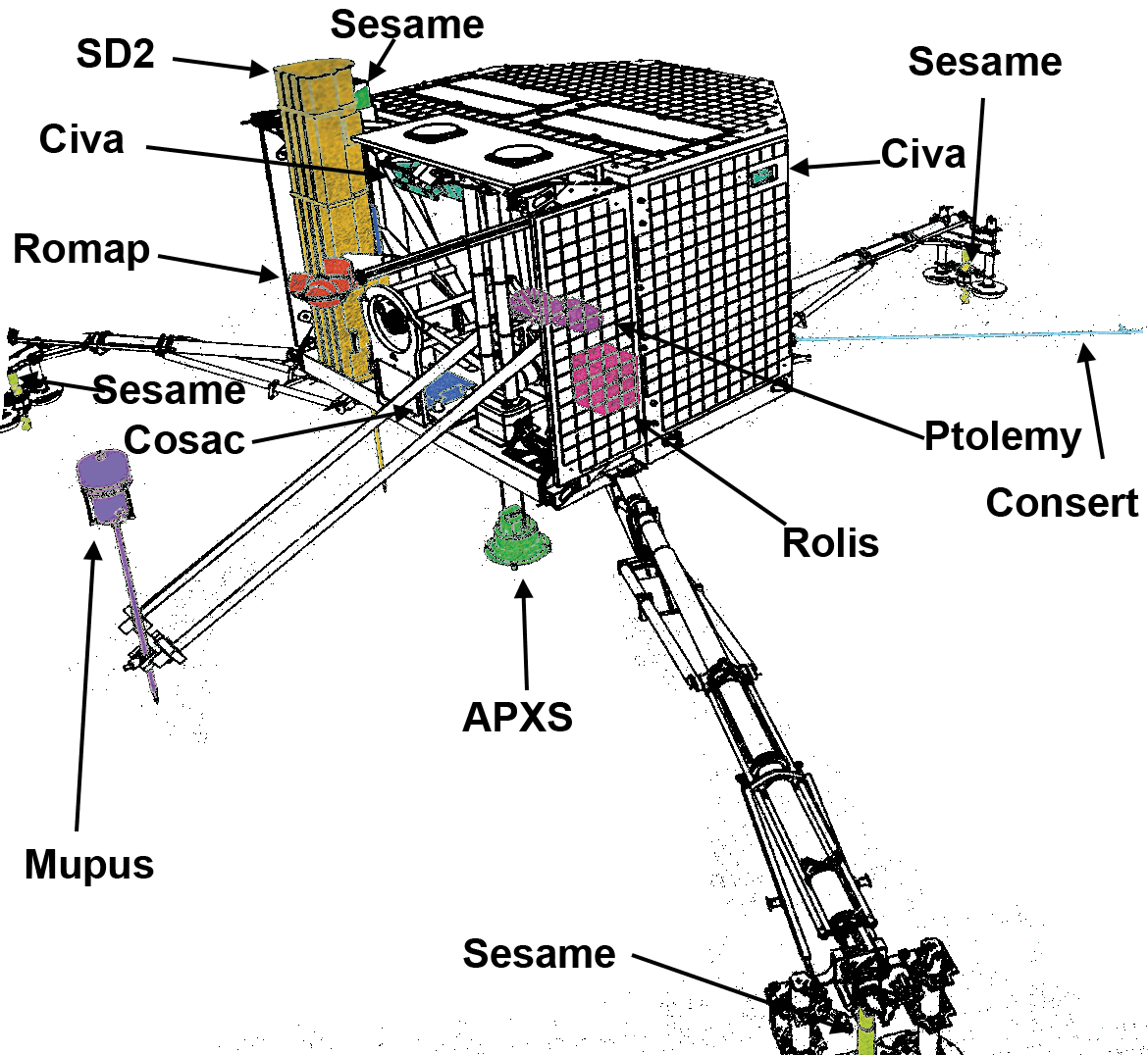 Philae all instruments (Rosetta mission)